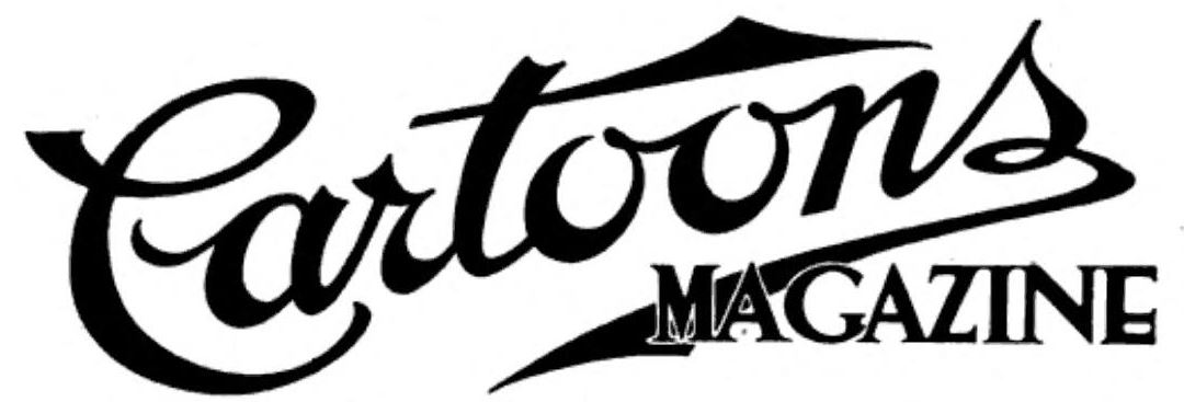 Logo of Cartoons magazine